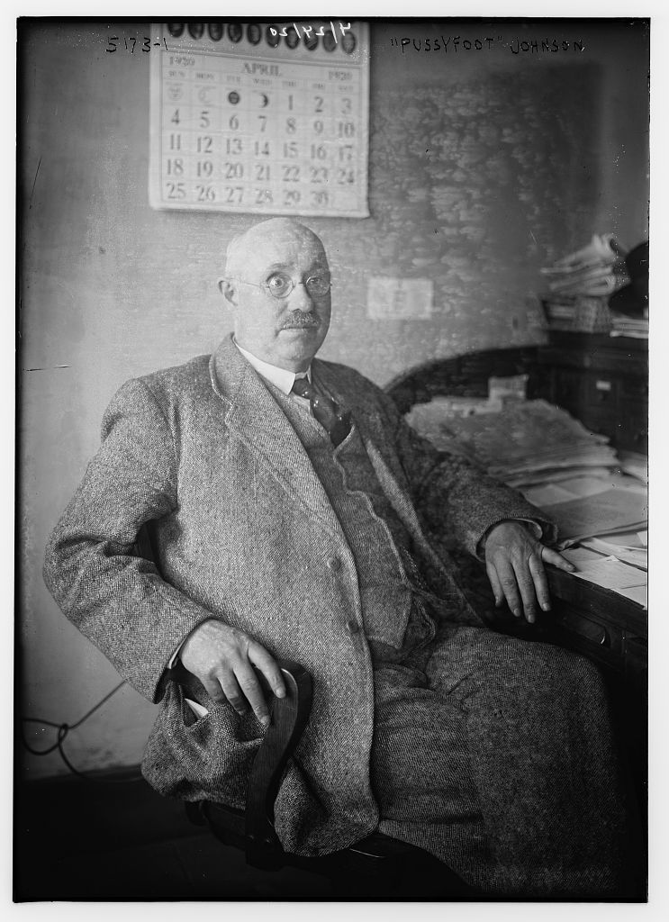 William Eugene "Pussyfoot" Johnson, American Prohibition advocate and law enforcement officer.